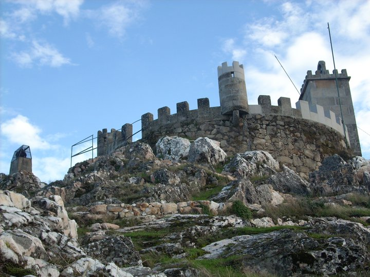 This file was uploaded for Wiki Loves Monuments in Portugal with the unique identifier 74789.